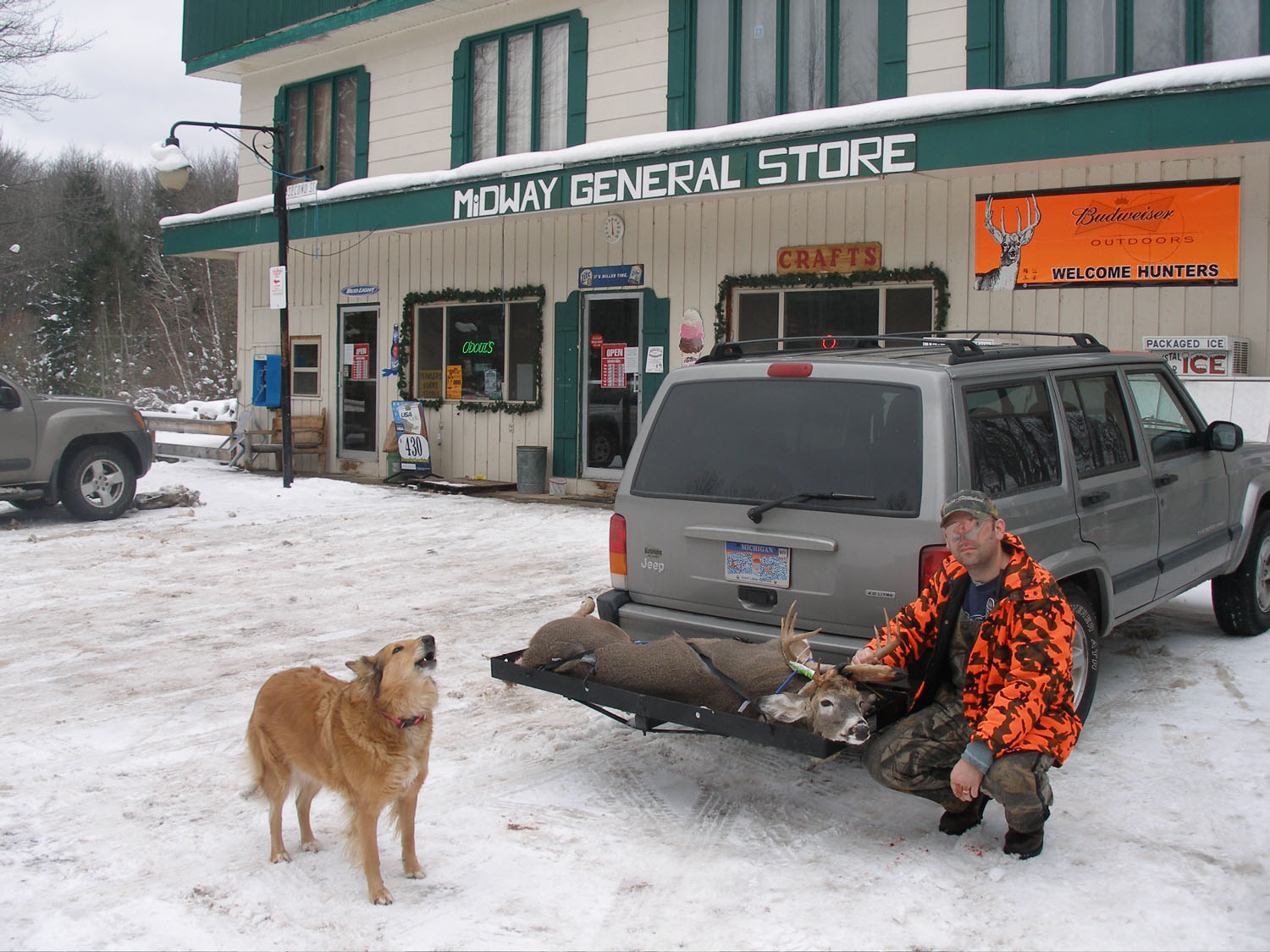 It is a common practice for hunters to pose with their harvests at the Midway General Store on Federal Forest Highway 13 near the Delta and Alger County lines. The store is one of the only public gathering places for miles in the vast expanse of the Hiawatha National Forest.